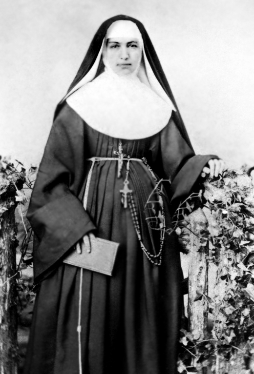 Mother Marianne Cope (23 January 1838 – 9 August 1918), was a Franciscan nun of the Sisters of the Third Order of Saint Francis, a religious order of the Roman Catholic Church. Born in Heppenheim (Germany) and entered religious life in Syracuse, New York, she worked, lived and died for the lepers on the island of Moloka‘i in Hawai‘i.